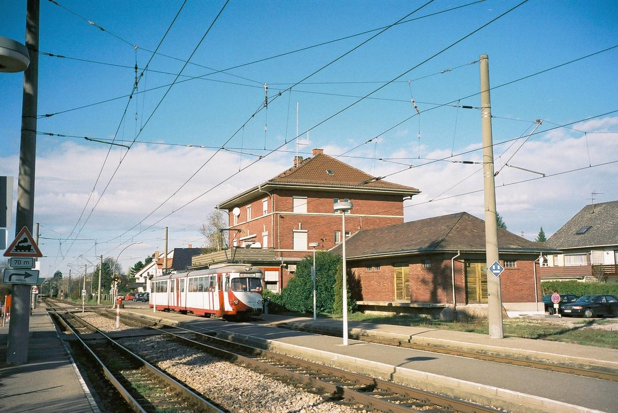 A train of the german Oberrheinische Eisenbahn (MVV OEG AG) in front of the station in Edingen (part of Edingen-Neckarhausen near Heidelberg) in germany